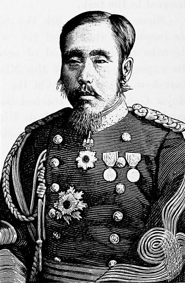 Lieutenant-General Viscount Yamaji; Commander of the 1st Provincial Division